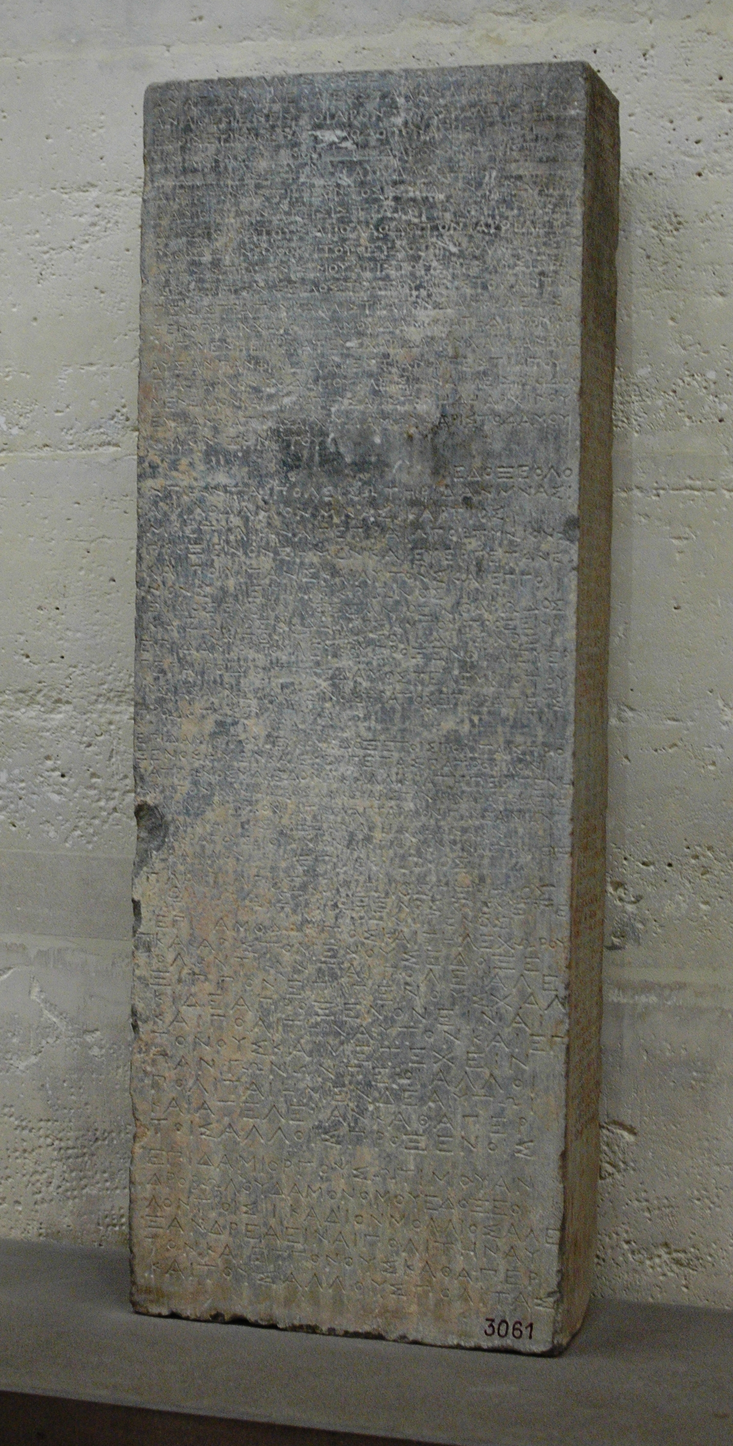 Honorific decrees of the city of Olonte, Crete, grey-blue marble, 3rd–2nd centuries BC. The decrees honour proxeni and public benefactors.